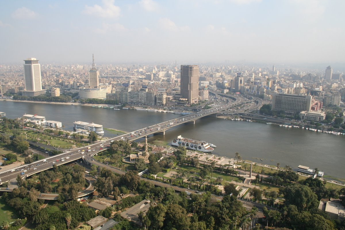 View of Cairo from the Cairo Tower, photographed by Omar Kamel (User Zadokite).